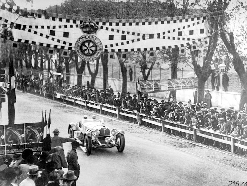 Rudolf Caracciola and co-driver Wilhelm Sebastian win Mille Miglia in Brescia, Italia, on 12 Aprile 1931 in Mercedes SSKL (W 06 RS) entry #87 [1] They were the first to pass 100 km/h average speed, as they drove the 1,635 km Brescia–Rome and back, at 101,1 km/hour. [2]